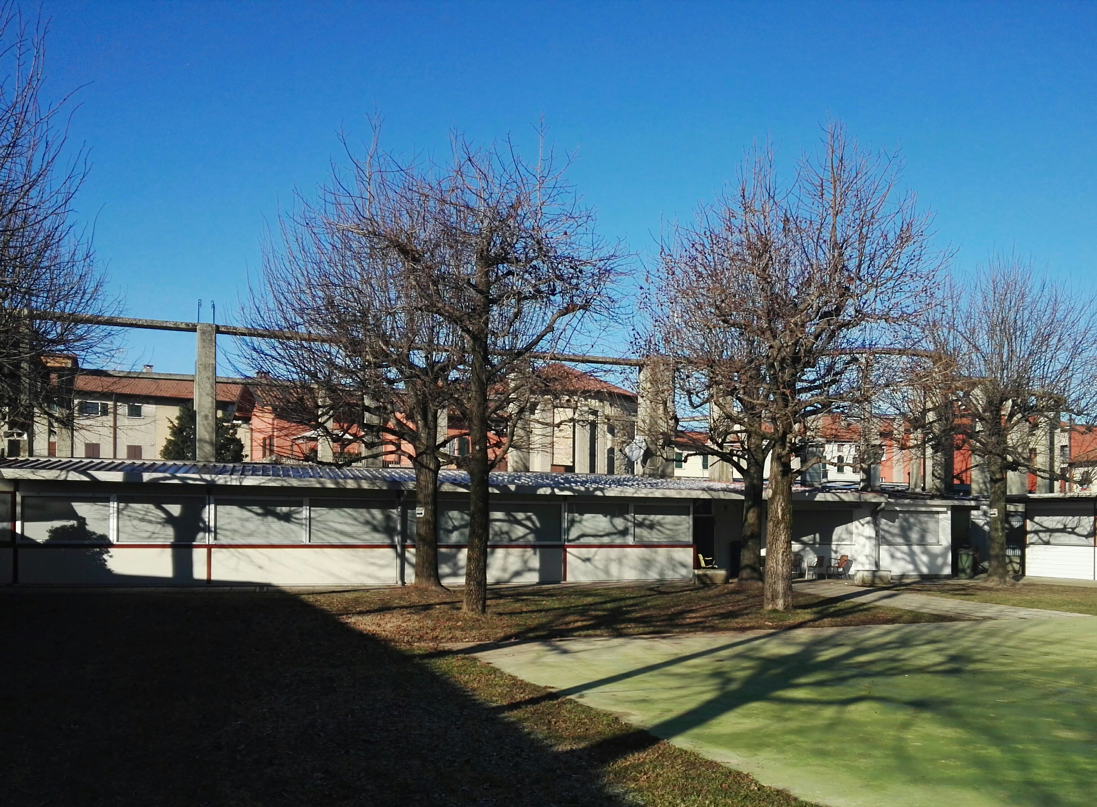 Luglio portichettese (Portichetto Luisago)